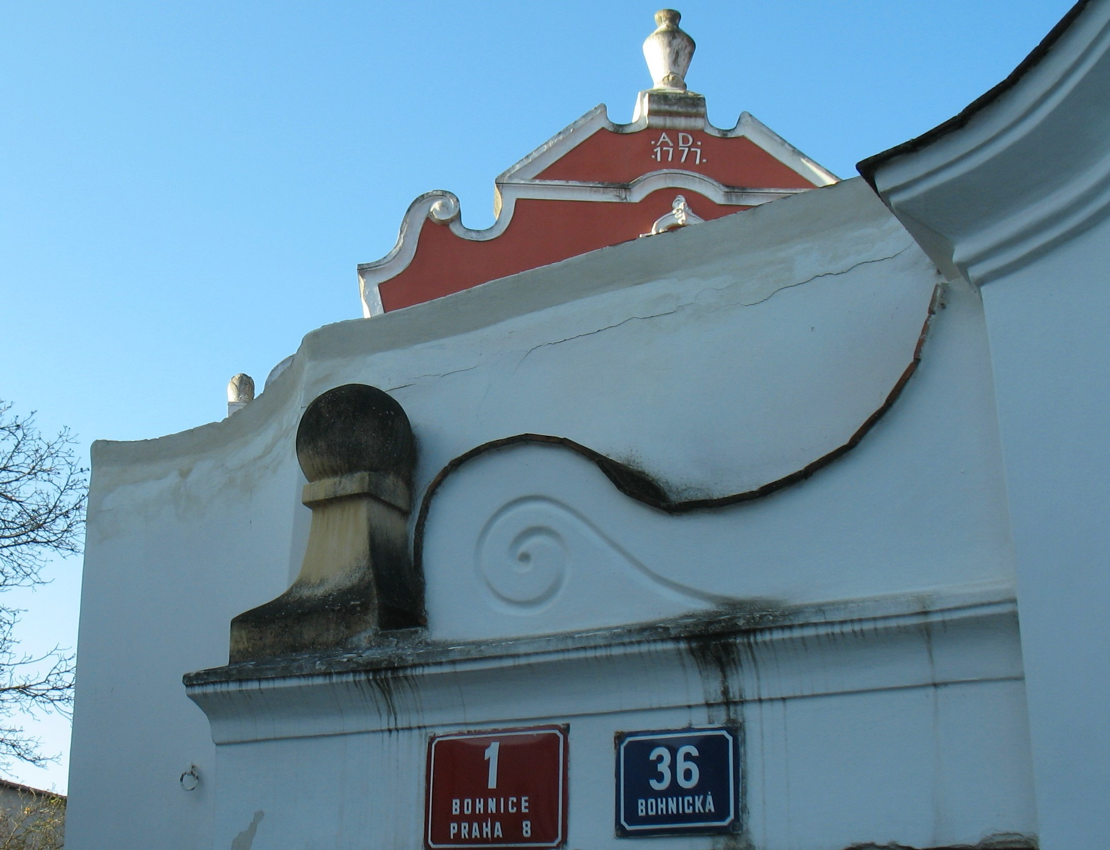 Heritage Zone of Village Staré Bohnice in Prague